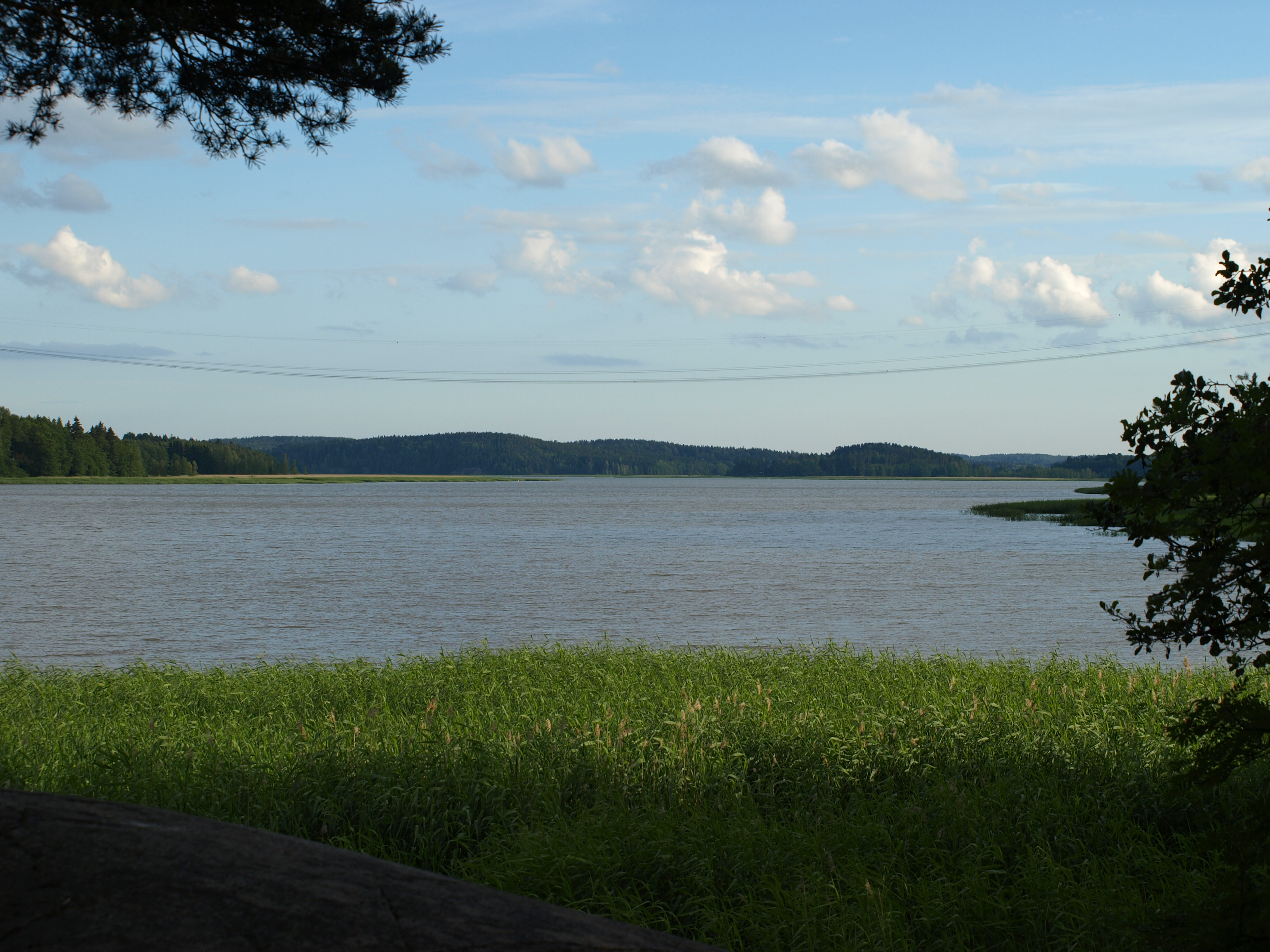 Halikonlahti Bay in June 2008. Pictured from Vuohensaari Island.